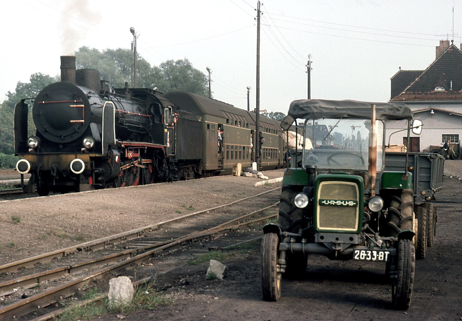 A pre-WW1 Prussian P8 class at work in Poland, 1976, hauling double-deck coaches; an Ursus tractor with trailer in the foreground